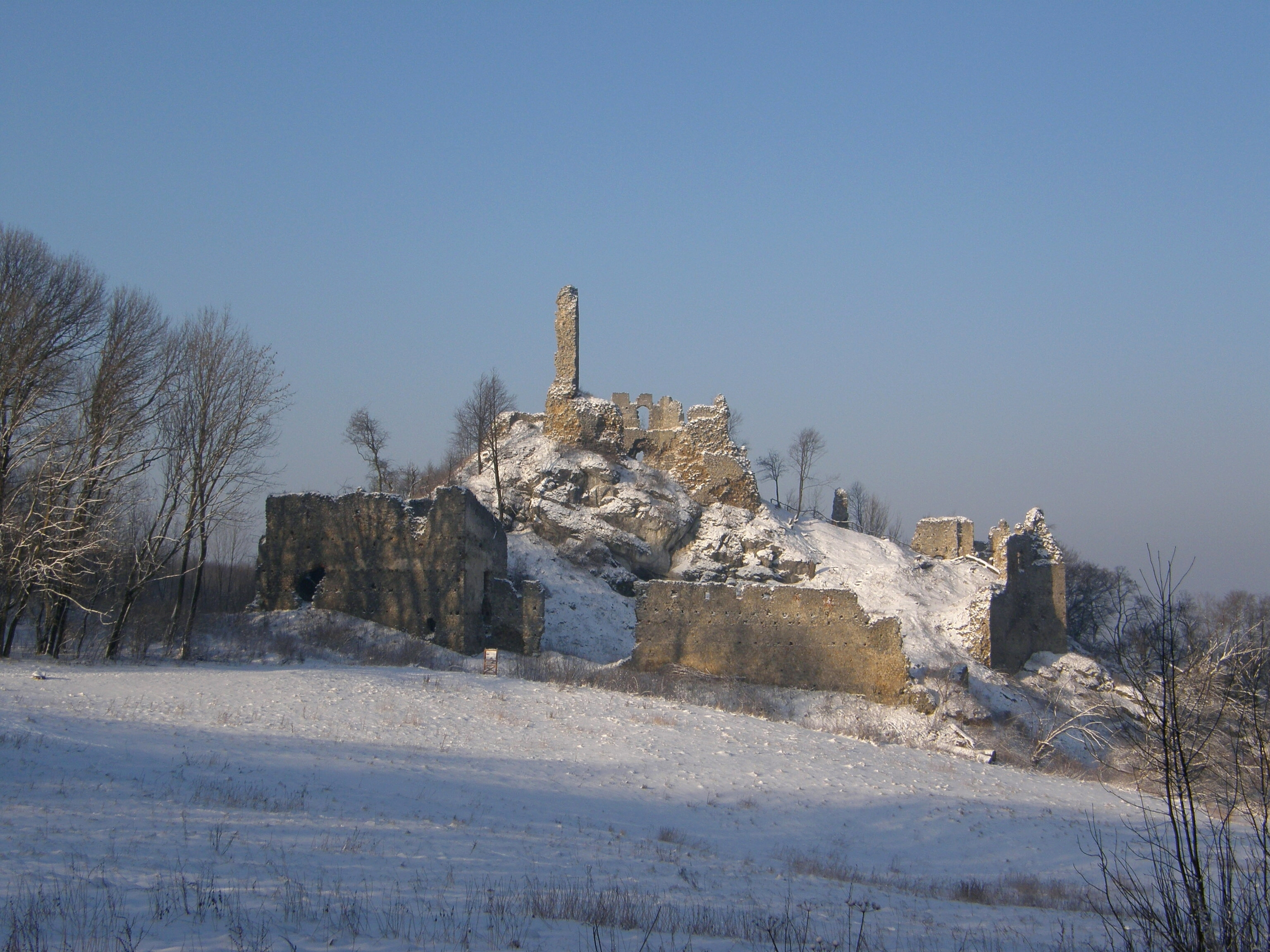 Korlátka Castle, general view.